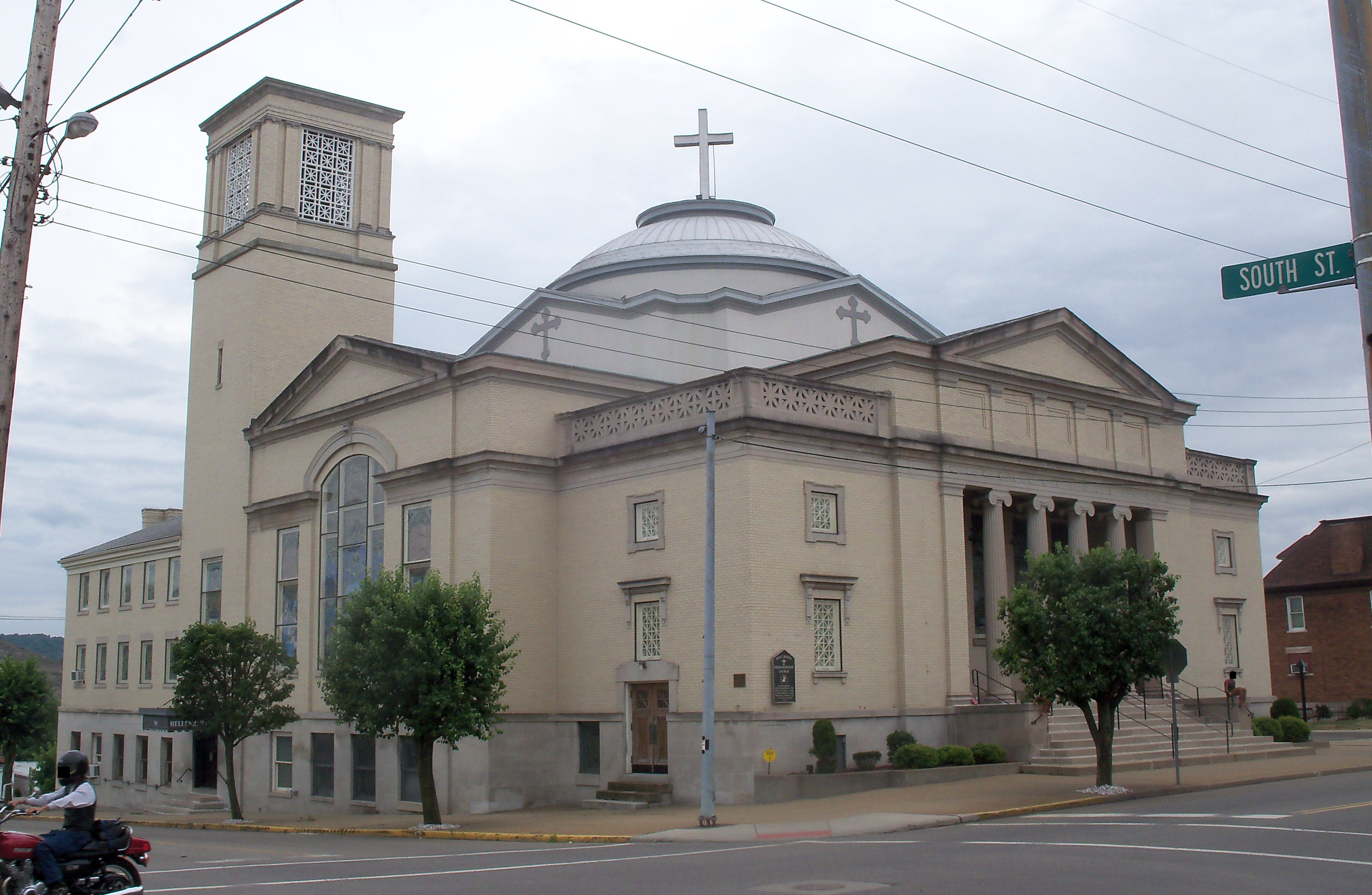 Northern side and front of the Holy Trinity Greek Orthodox Church, located at 300 S. Fourth Street in Steubenville, Ohio, United States. Built in 1914 and formerly a Methodist church, it is listed on the National Register of Historic Places.